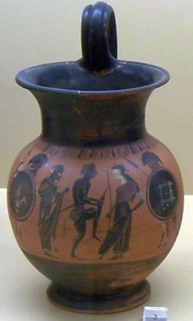 Arming scene on an attic black-figure Oinochoe; from Athens Agora; about 550/525 BC.; Agora Museum Athens